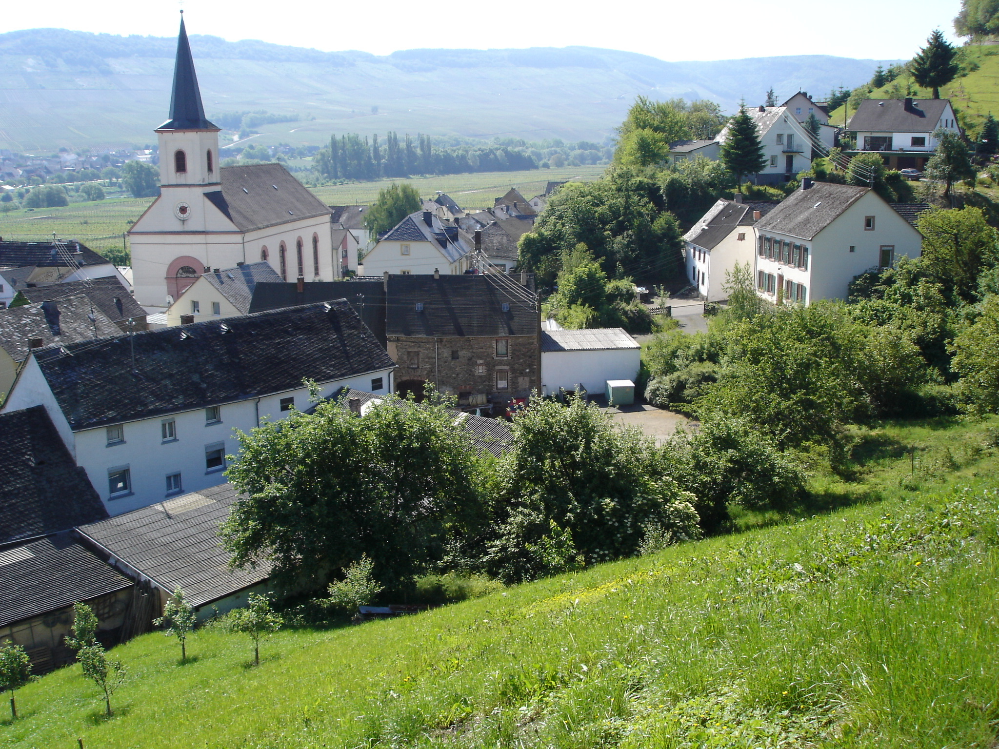 Ensch